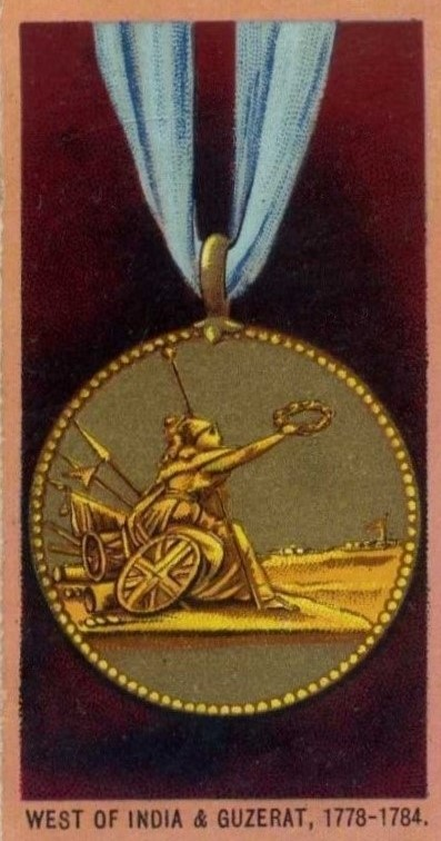 Medal awarded to Honourable East India Company native soldiers for Deccan campaign of 1778-84, depicted on Churchman cigarette card